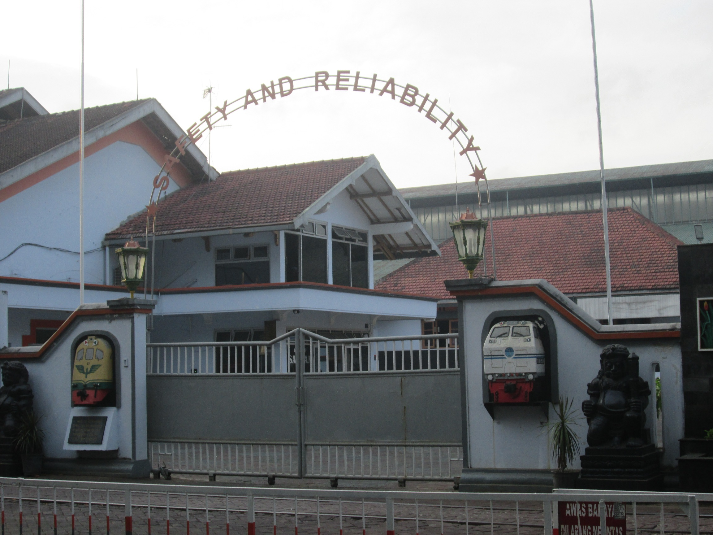 In front of Indonesian Railways Locomotive Workshop at Yogyakarta